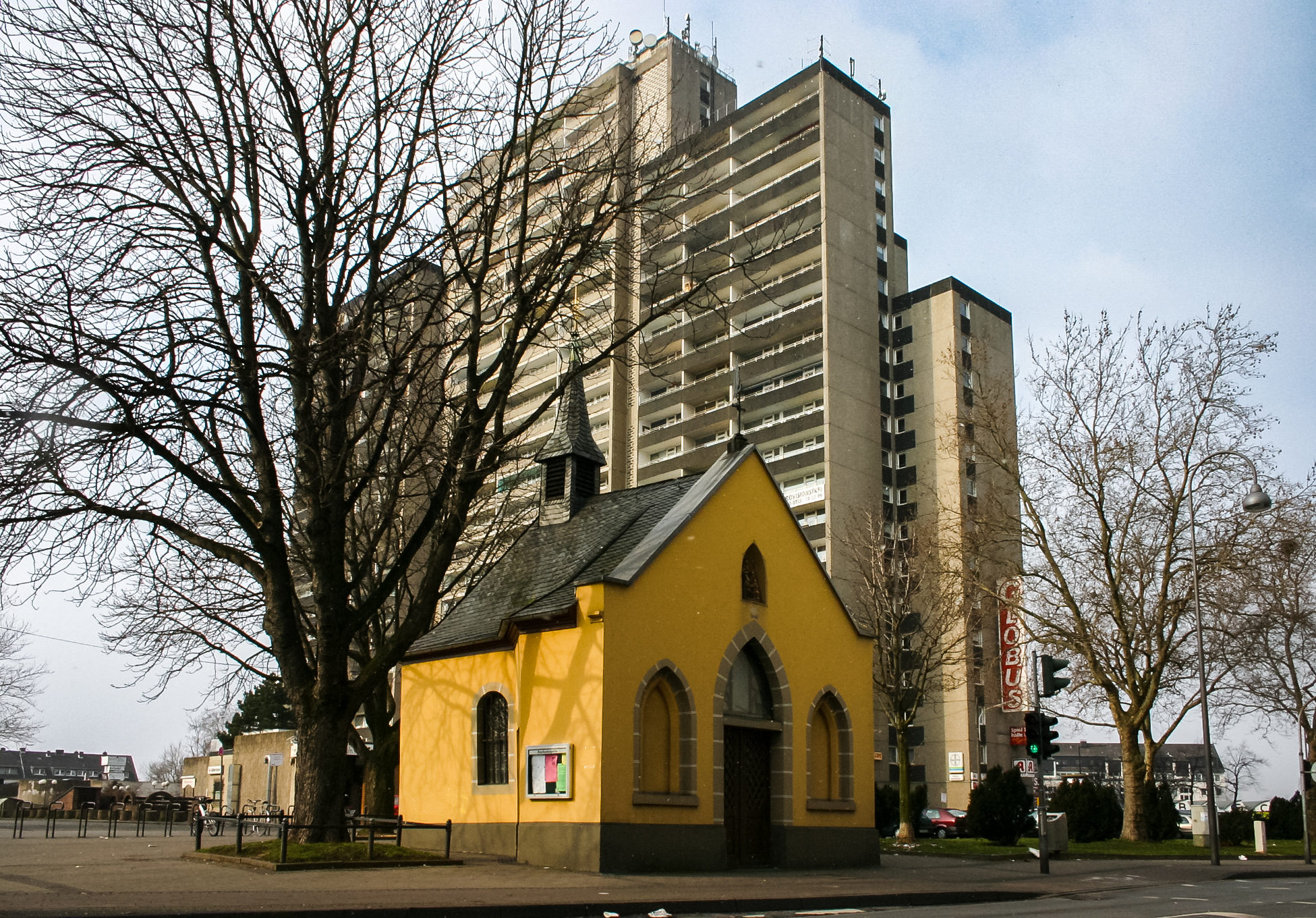 Cologne, Germany. city district Bickendorf, Rochus chapel.